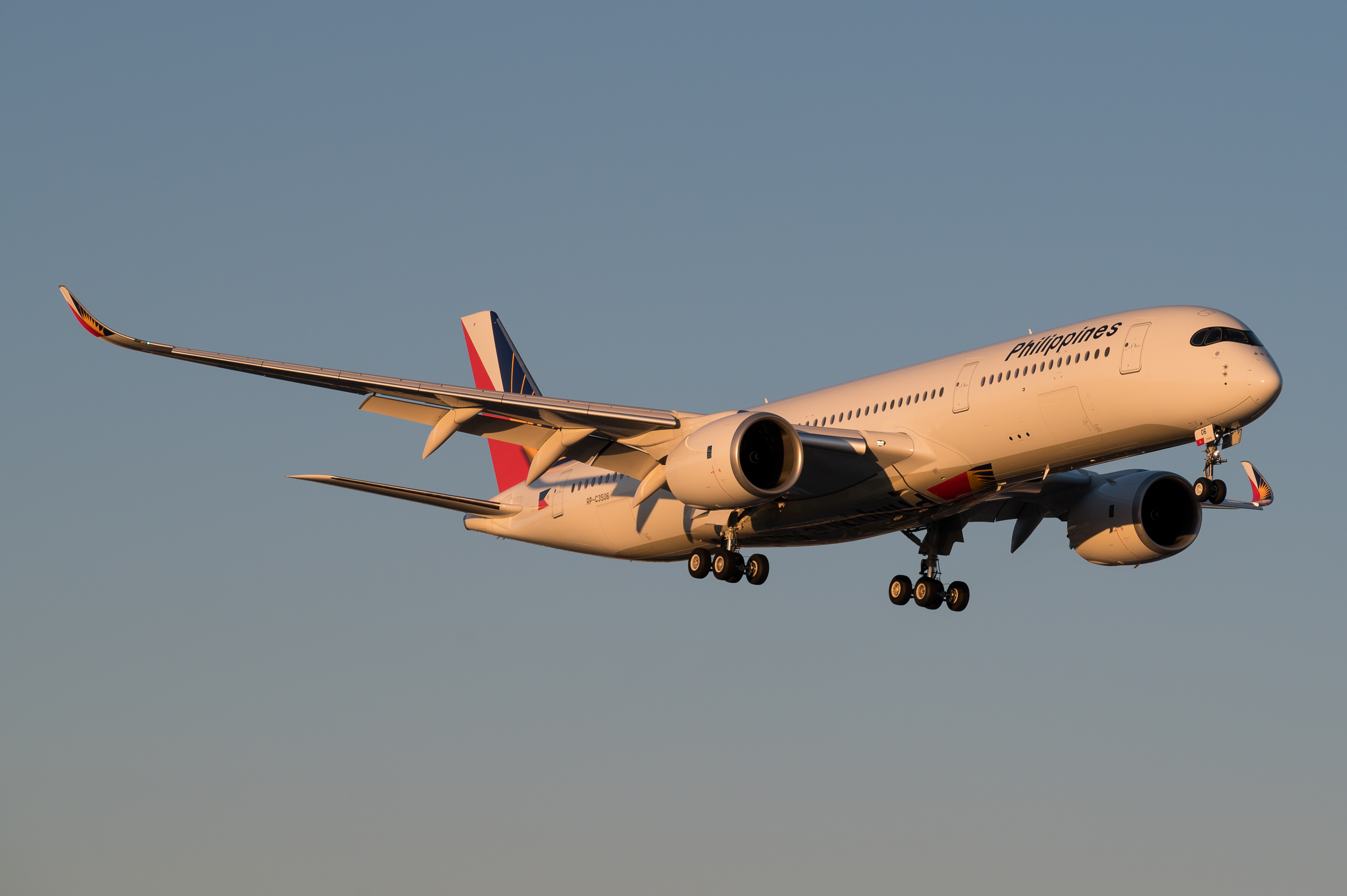 Arriving YYZ